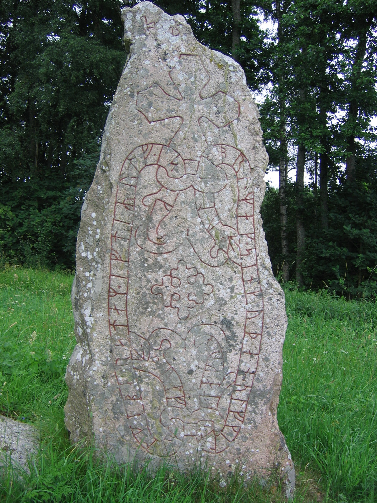 Runestone U 161, Uppland, Sweden.